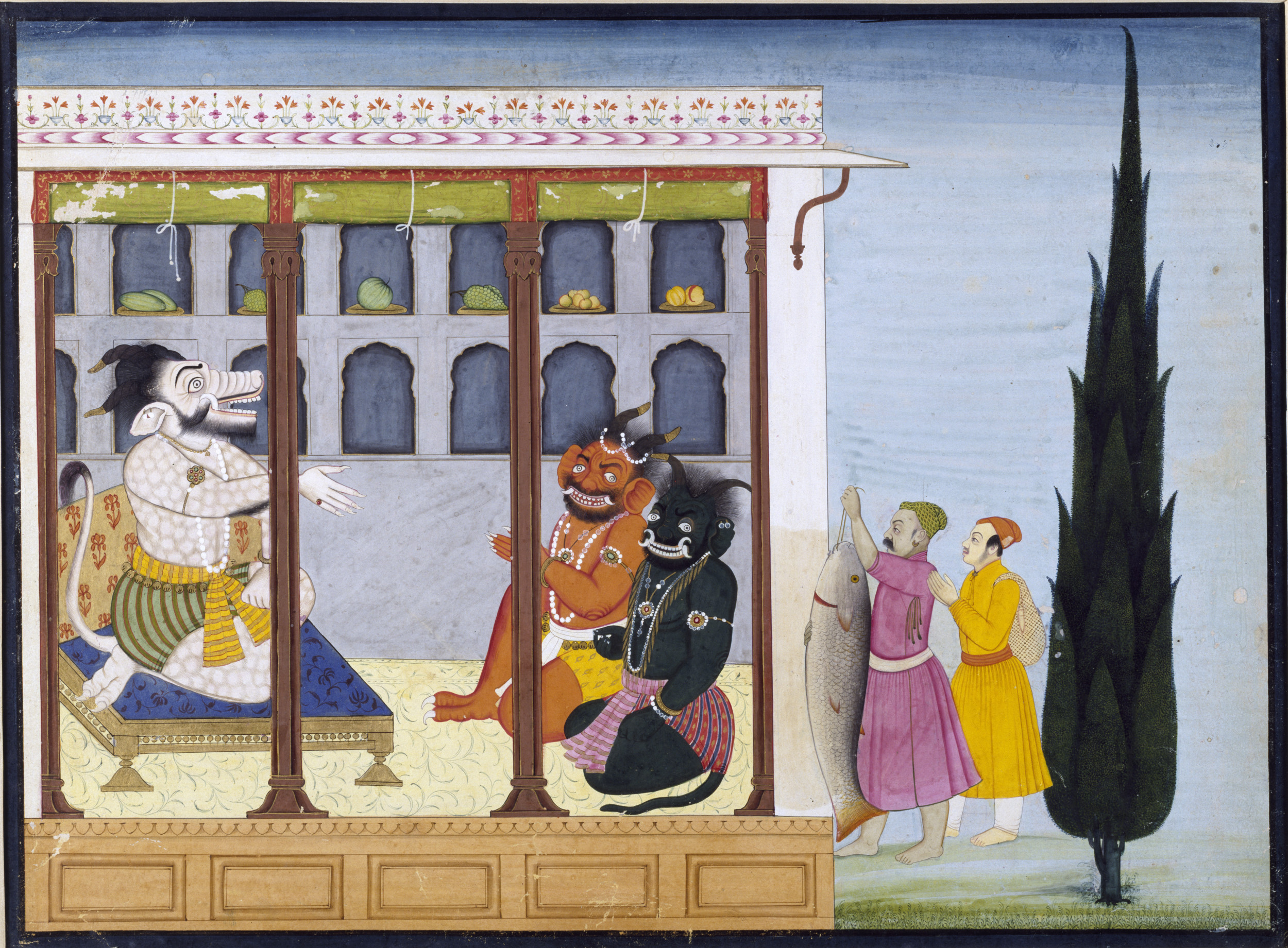 This painting is one of a series of illustrations to the Bhagavata Purana, a Sanskrit text whose tenth book deals with the life of the god Krishna. A prophecy told that the demon king Shambara would be killed by Krishna’s son Pradyumna. When Pradyumna was born Shambara seized him and threw him into the sea, where he was swallowed by a fish. However, fishermen caught the fish and presented it to the demon king. When his wife cut it open she found the baby and raised him, enabling the prophecy to be fulfilled.